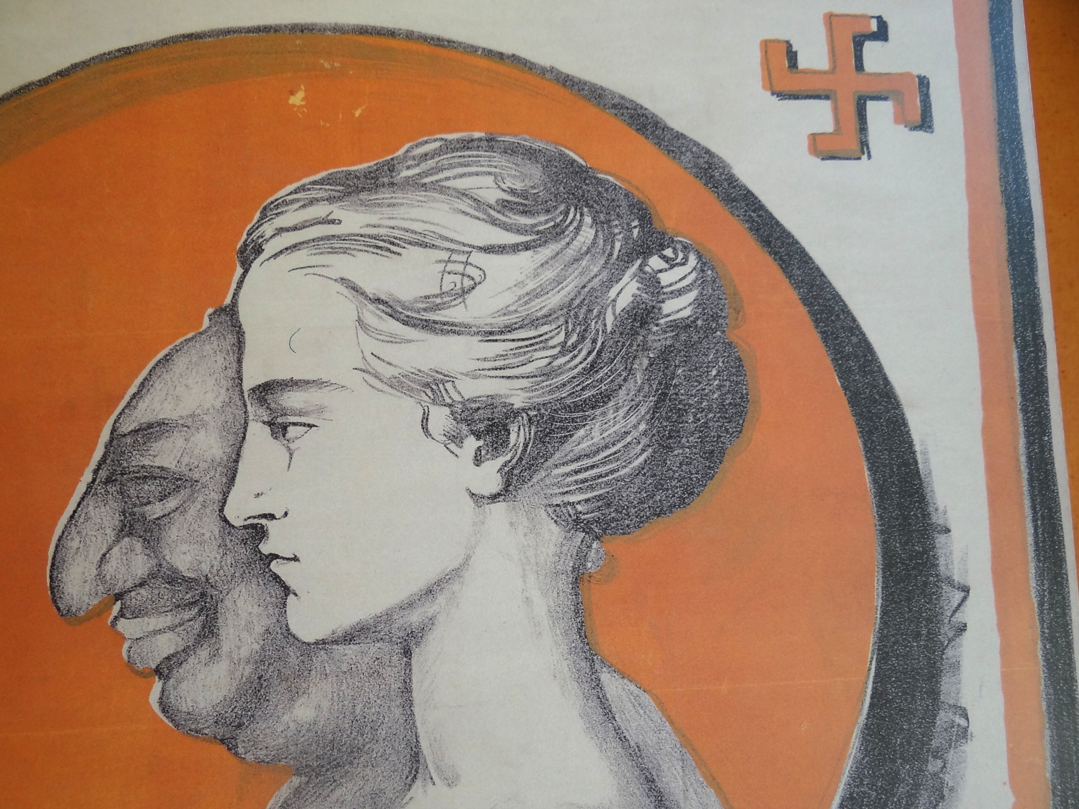 1920s Propaganda Image Showing Dangers of Race-Mixing - Villa Marlier - Where 1942 Wannsee Conference Was Held - Wannsee - Berlin - Germany